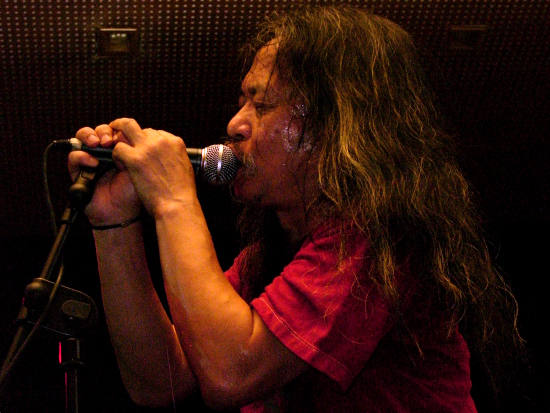 former Can singer Damo Suzuki performing live in València